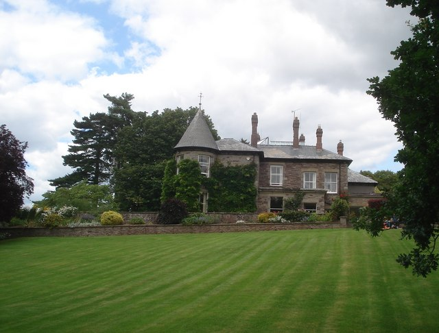 Brobury House The west facing side has an impressive tower, a common feature in late Victorian mansion houses.